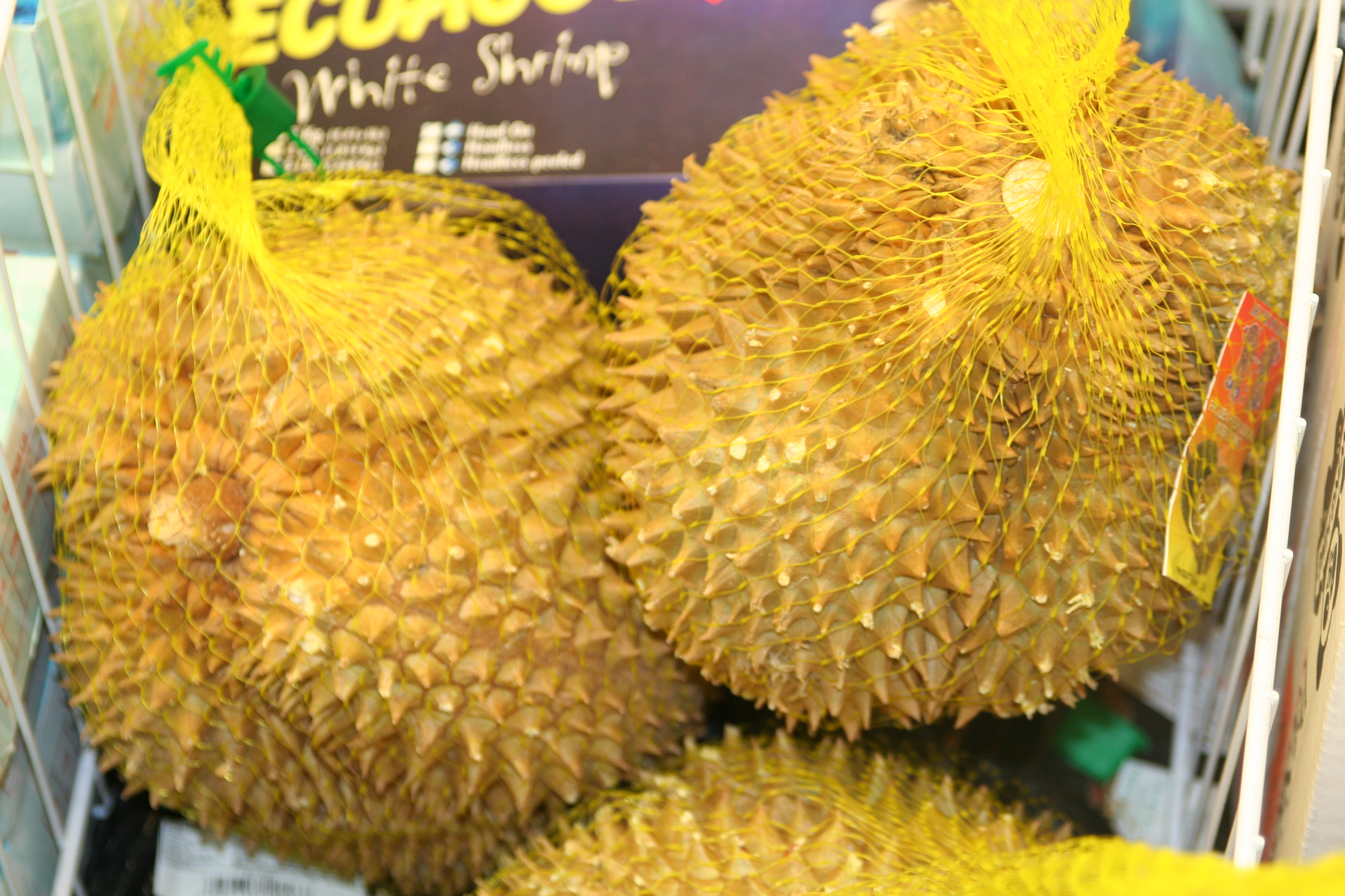 Durians being sold in mesh bage at a California market in 2009